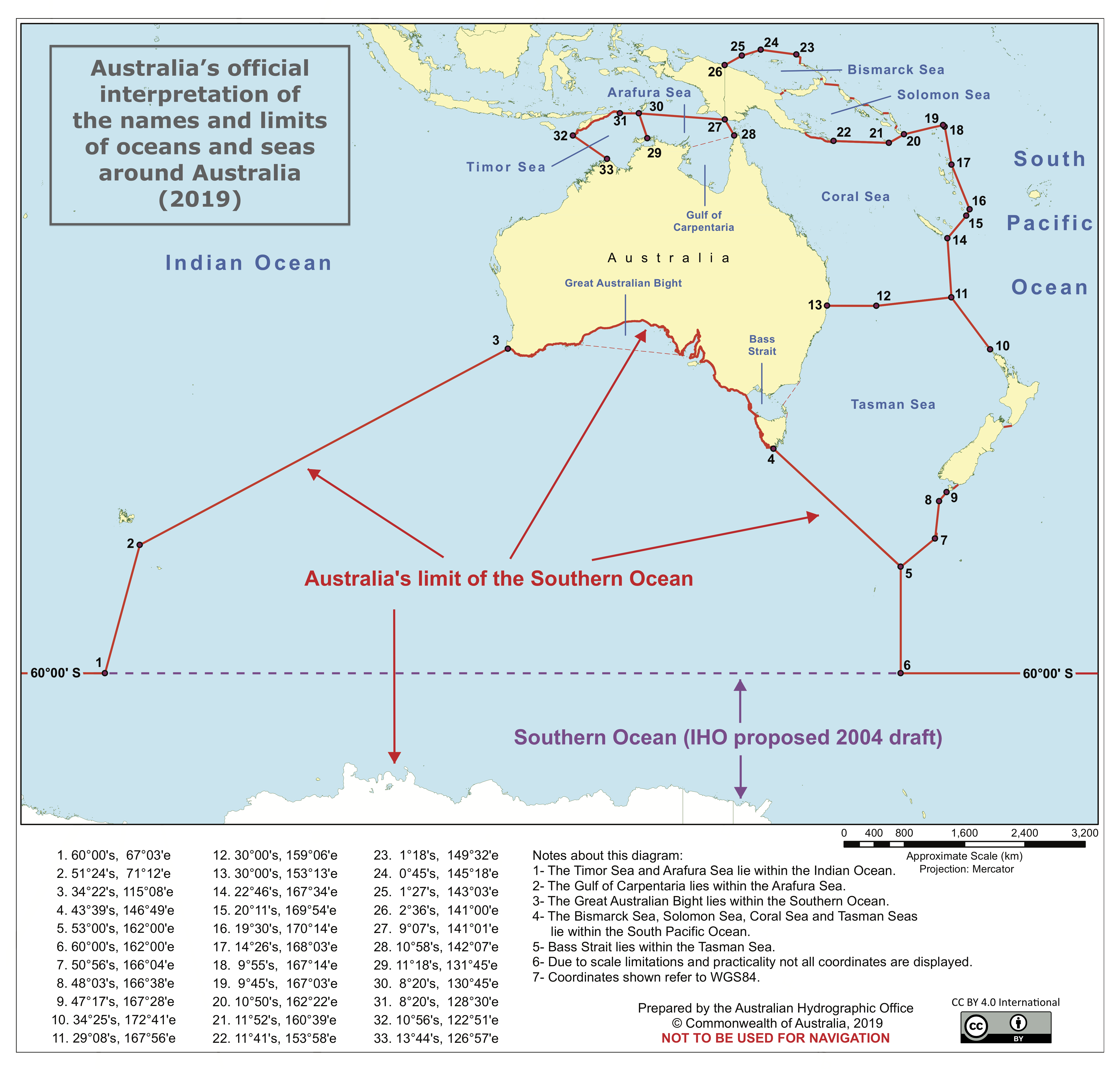 A map of Australia and its adjacent oceans, annotated with locations and notes describing the Australian Government's interpretation of the names and limits of oceans and seas around Australia